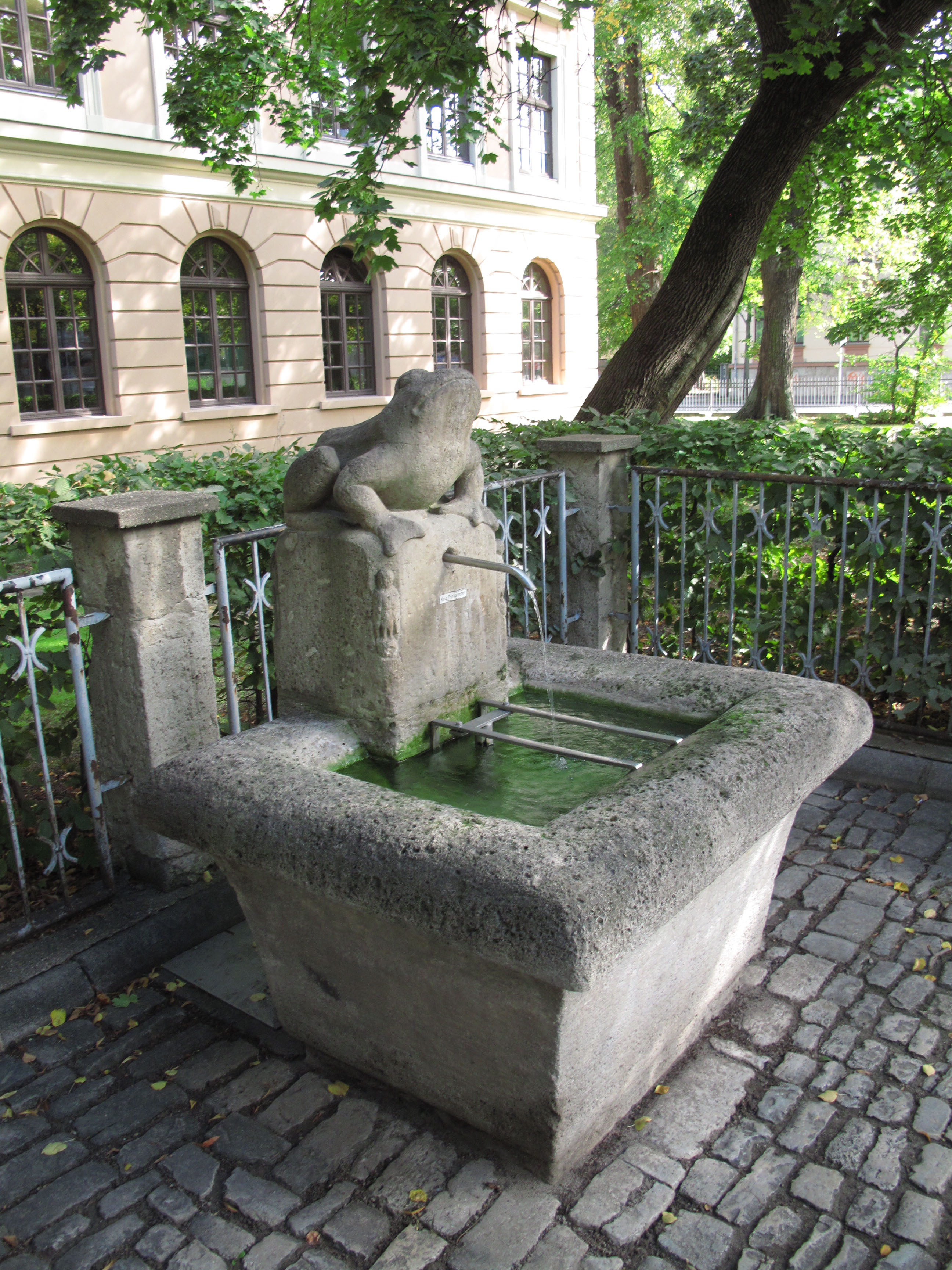 Froschbrunnen (frog fountain), a work of German Sculptor Arno Zauche. Steubenstraße, Weimar